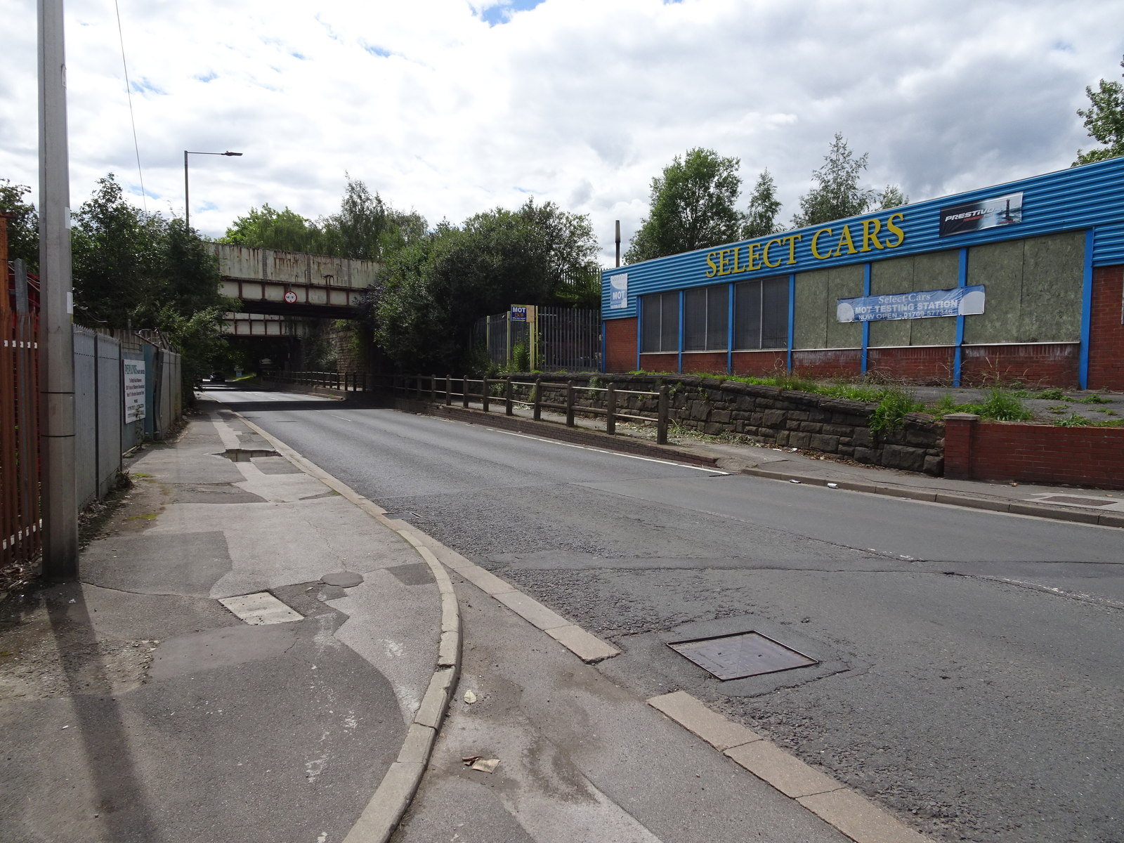 Mexborough Junction railway station (site), YorkshireOpened in 1850 by the South Yorkshire Railway, later part of the Manchester Sheffield & Lincolnshire Railway on the line from Doncaster to Barnsley, this station closed in 1872 when it was replaced by the current Mexborough station. View south west from the road up towards track level. No trace apparently remains. The bridge still carries the railway line from Mexborough to Swinton and Sheffield, the line to Barnsley having long gone.